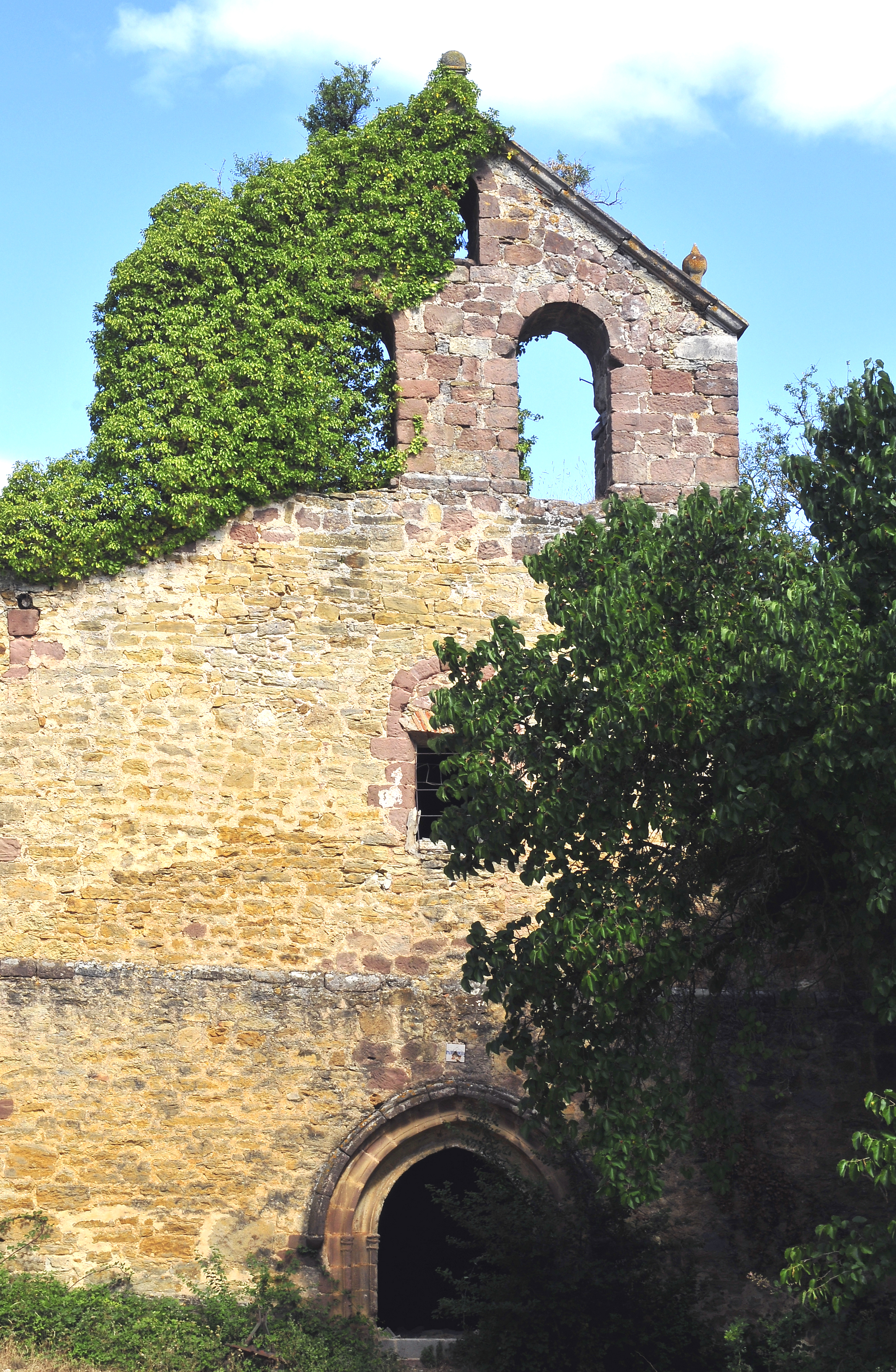 The church of the abandoned village of Tamayo. Oña. Burgos, Castile and Leon, Spain